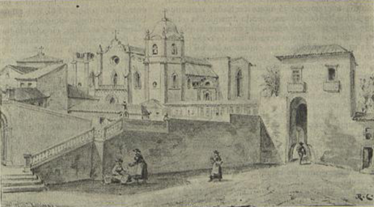 Drawing of the Silves Cathedral, in the region of Algarve, in southern Portugal. This image was published on the Occidente magazine No. 1168, of the 10th June 1911, and scanned by the Hemeroteca Municipal de Lisboa.